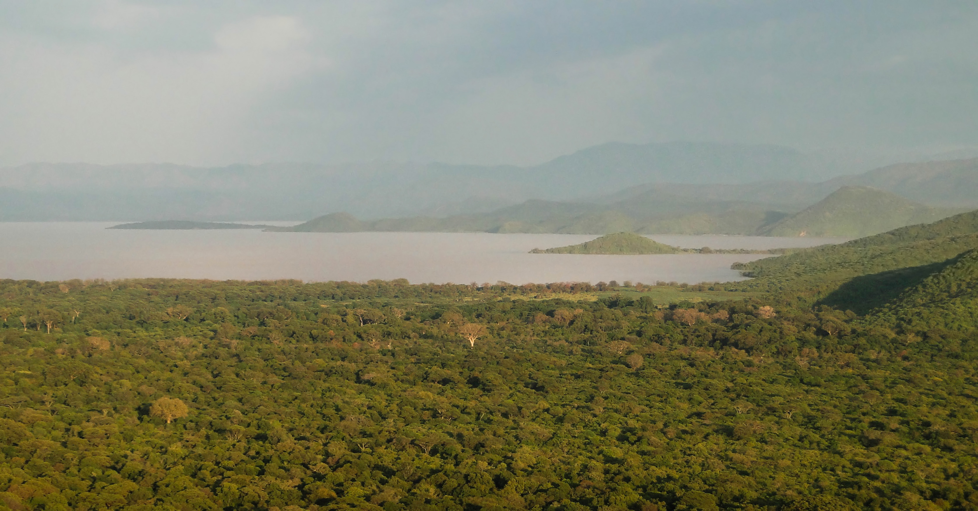 Lake Abaya seen from Arba Minch, Ethiopia